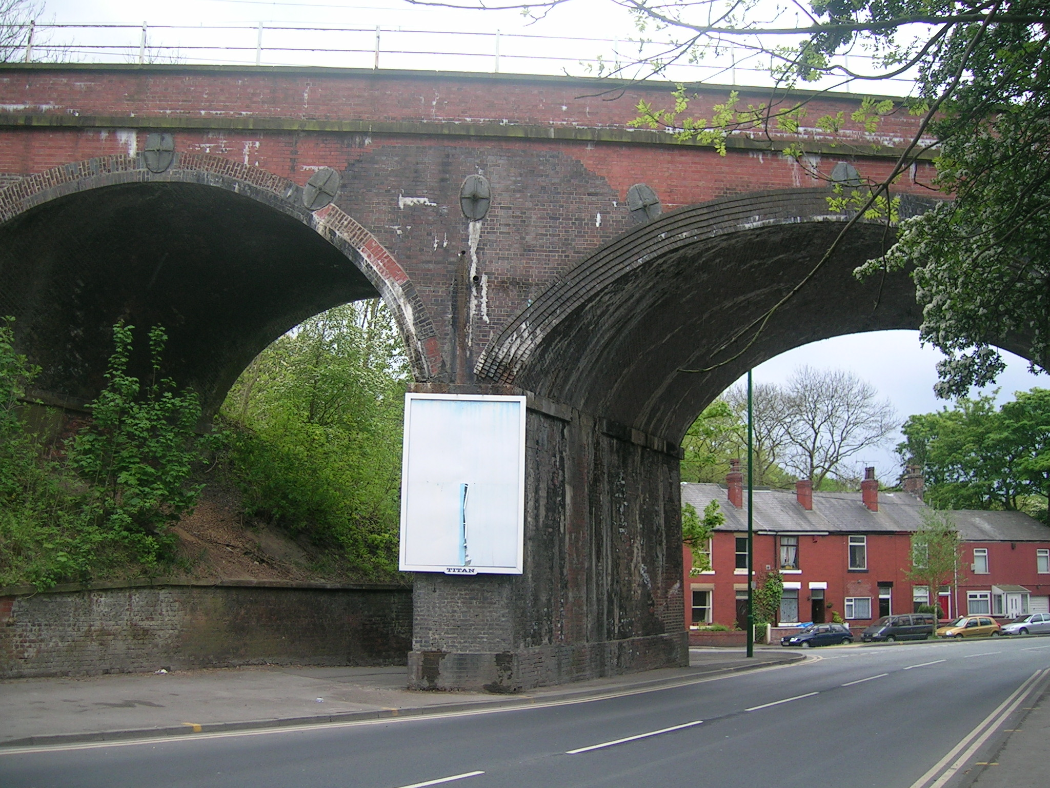 Godley is a suburb near Hyde, Greater Manchester. In the cult BBC ONE drama seires Life on Mars, Hyde is Sam Tyler's neck of the woods.